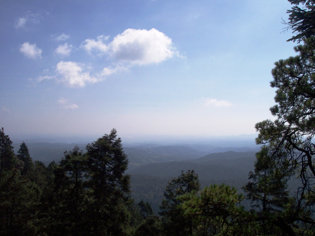 Santa María Magdalena Cahuacán